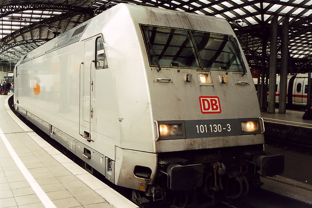 A DB class 101 locomotive in Cologne Central Station. It is one of the locomovties that pulled Metropolitan express trains, until the project was cancelled later.